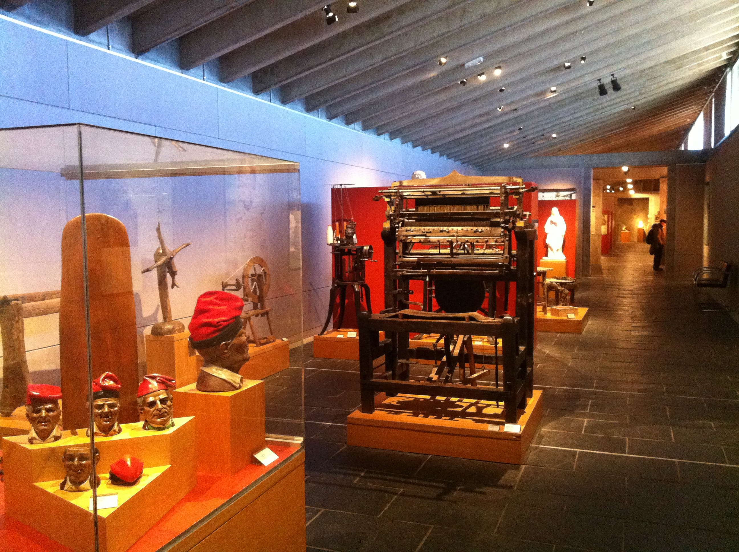 Museu de la Garrotxa